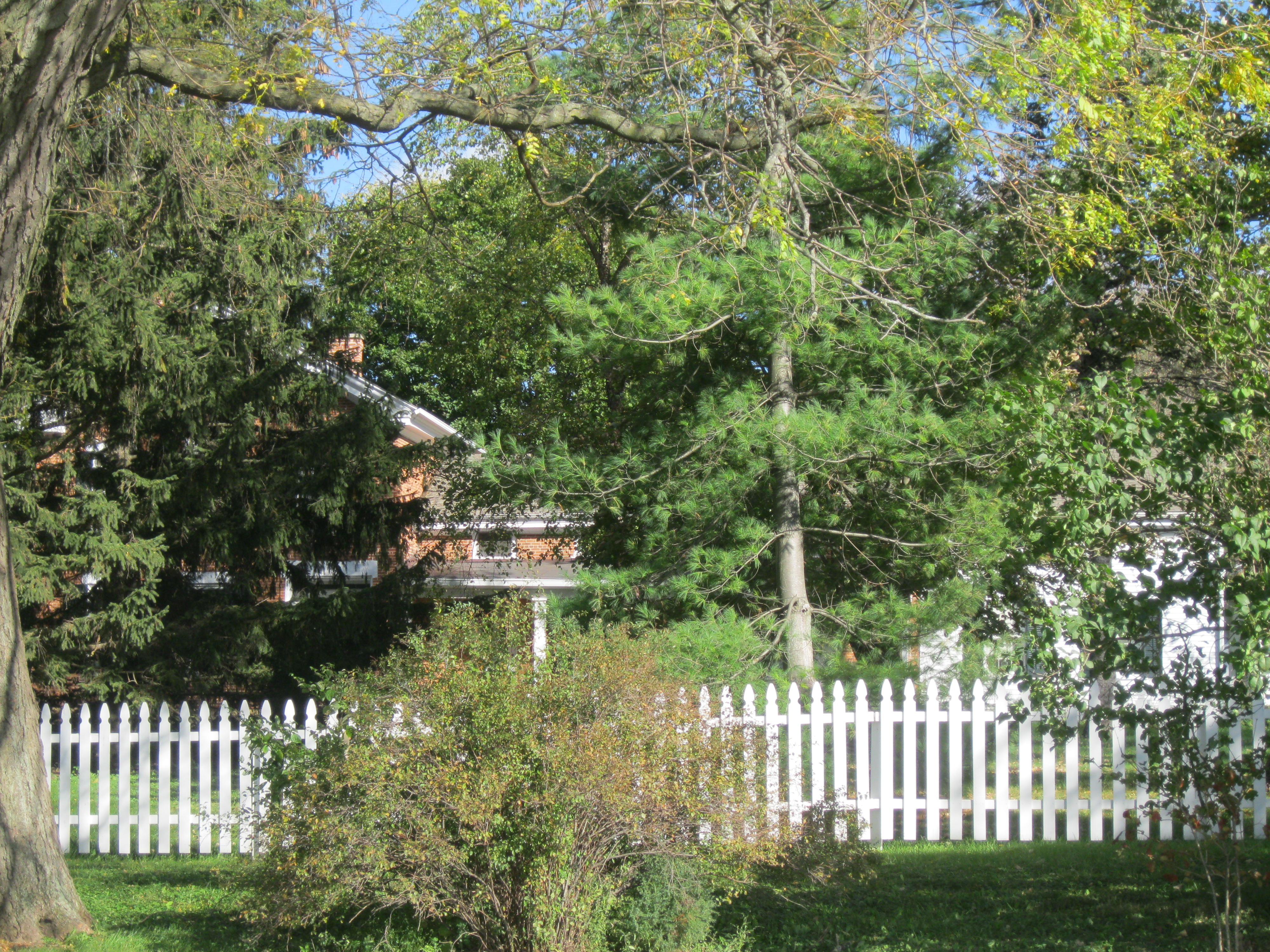 The Miller House, located in the Town of Porter, Wisconsin near Evansville. The house is listed on the National Register of Historic Places.